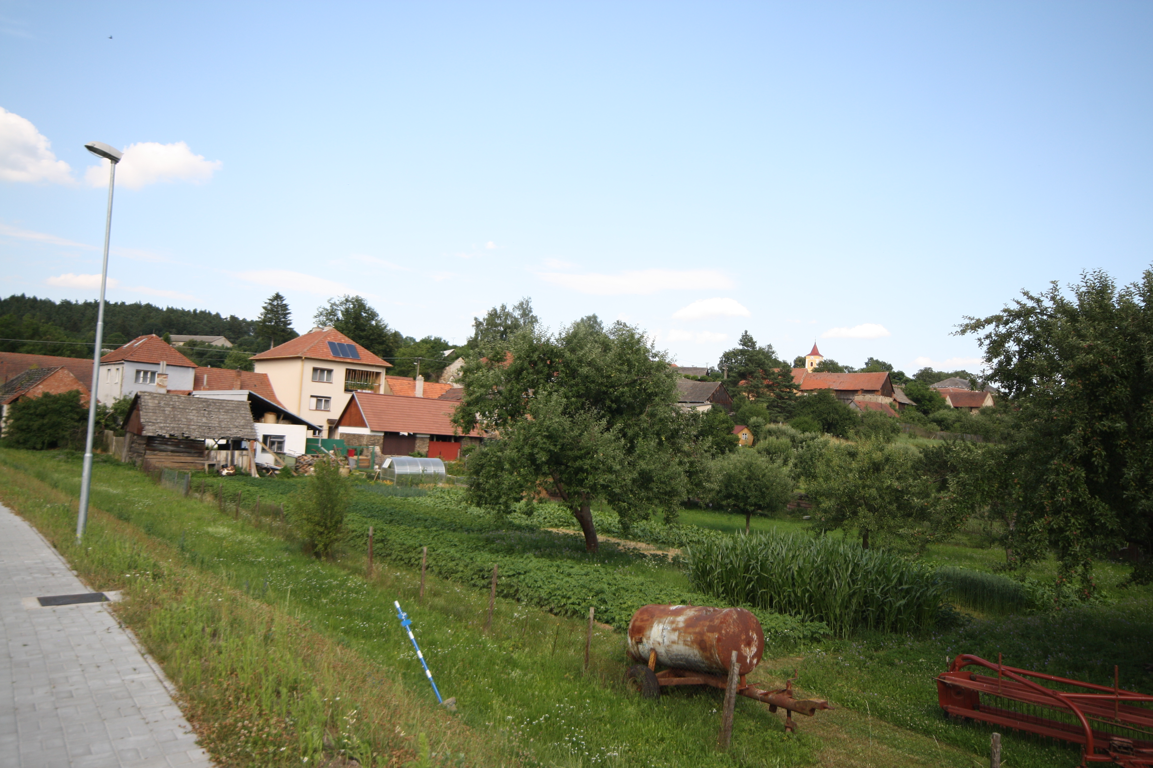 Gardens in Naloučany, Třebíč District.